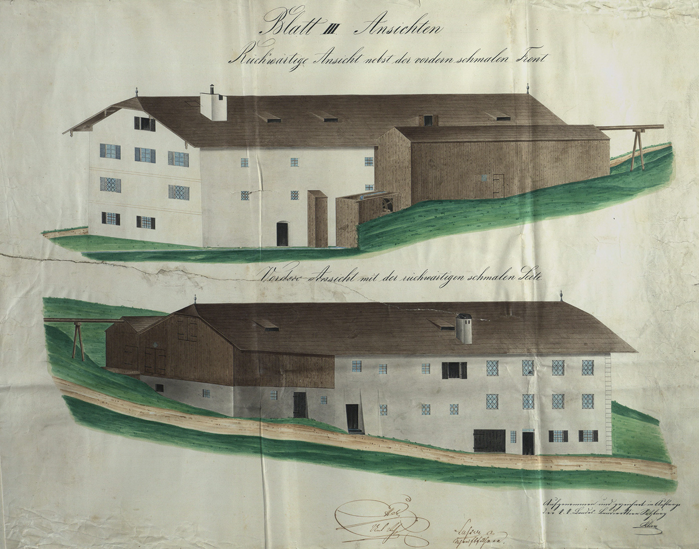 drawing of the Haslachmühle (Flöcknermühle) in Salzburg Gnigl, Austria, from 1853; commissioned by the State Court of Salzburg